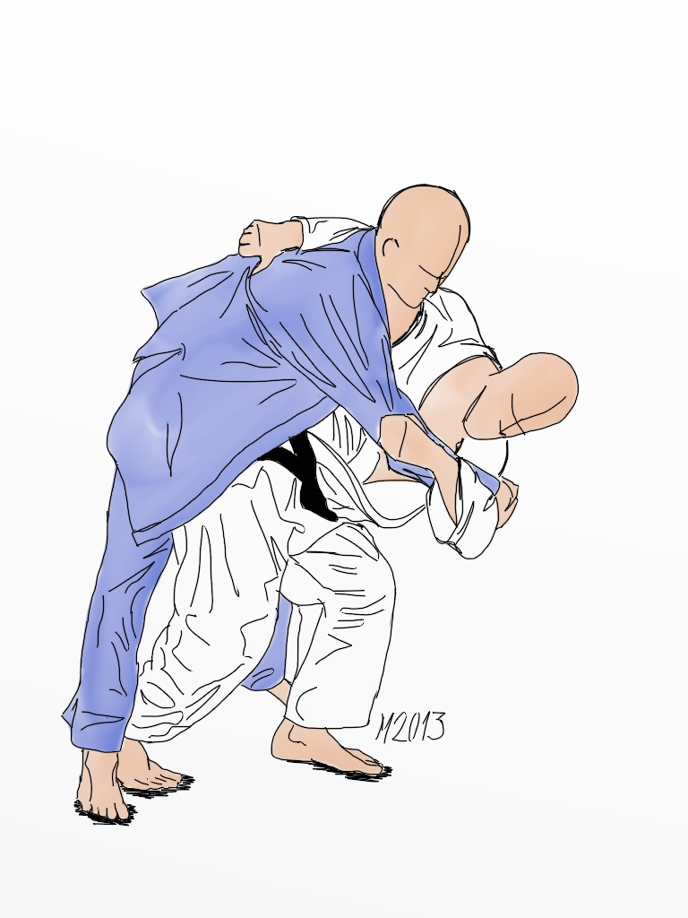 Illustration of the judo throw tsuri-goshi, a hip-throw where you grip the opponents gi or belt.